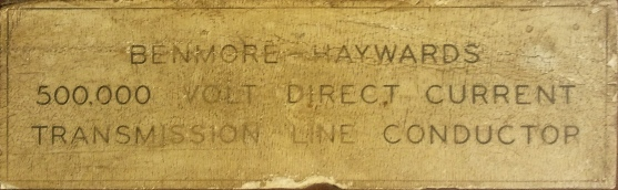 Plate on an overhead power line conductor sample cross-section from Benmore–Haywards link/HVDC Inter-Island transmission line, New Zealand Caption on sample reads: "Benmore–Haywards 500,000 volt direct current transmission line conductor"